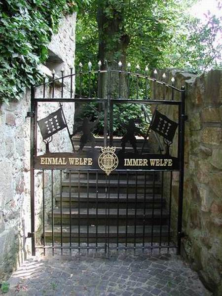 Powder tower in Lingen, Lower Saxony, Germany. The new main gate with the sections motto